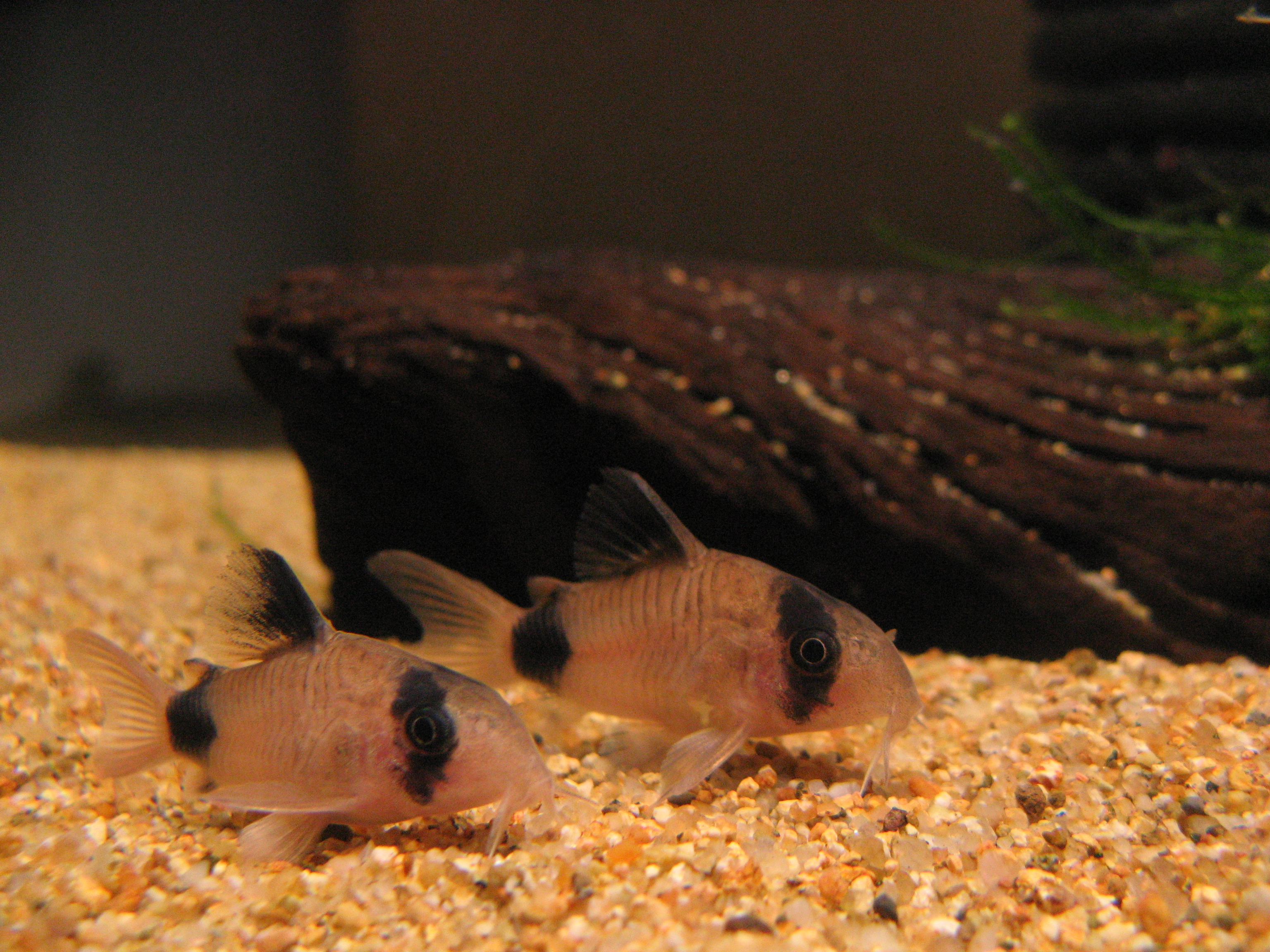 corydoras panda.jpg